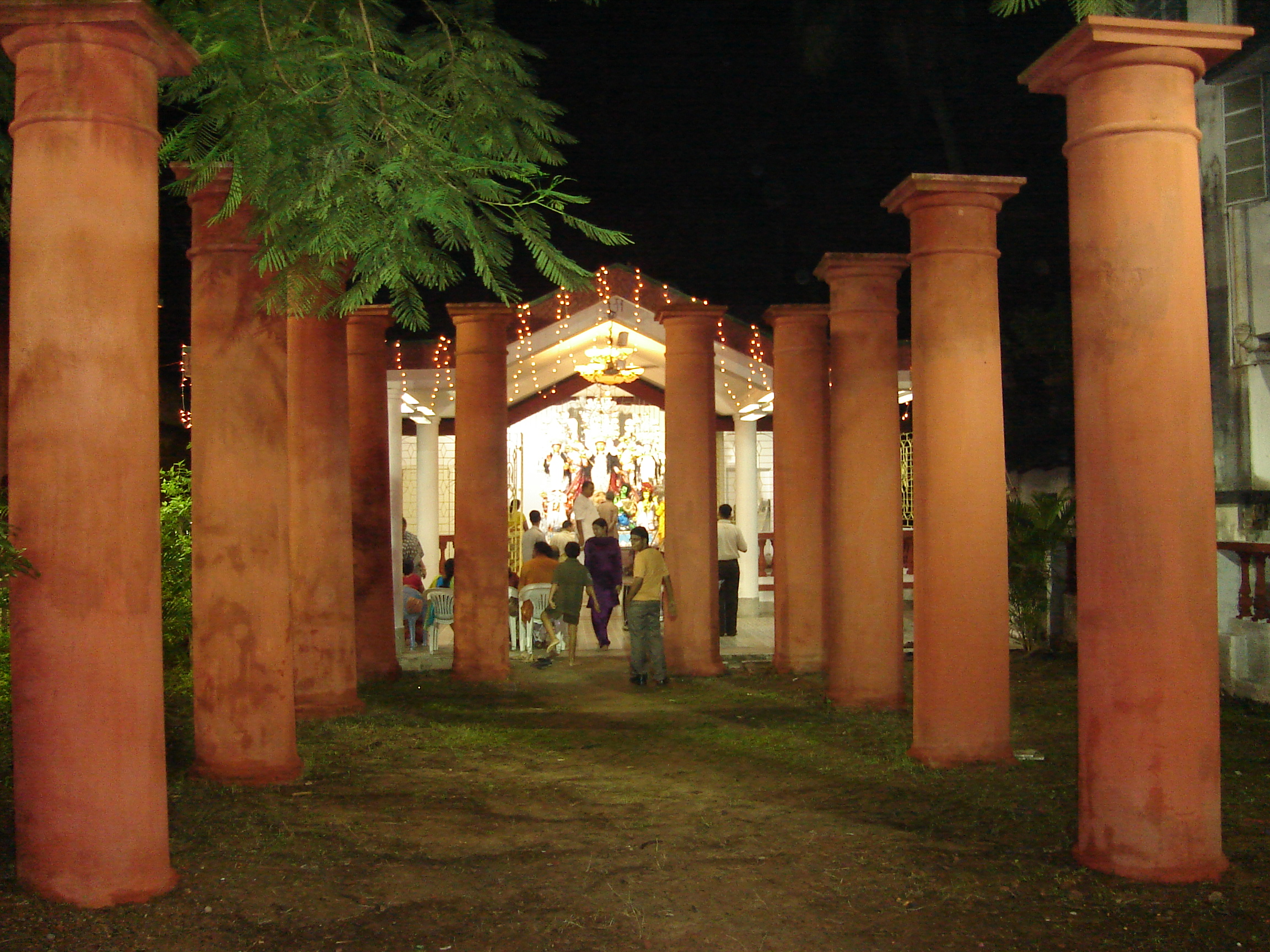 Historical Sabarna Atchala during Durga Puja. ঐতিহাসিক সাবর্ণ আটচালা, দুর্গাপূজার সময়।